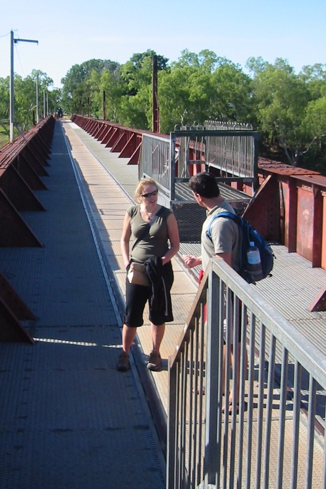 Disused rail bridge, crossing the Katherine River at Katherine, Northern Territory, Australia.